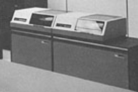 IBM 1311 Disk Drives (Model 2 and Model 3 - clipped from photo of an IBM 1620 Model II in A FOURTH SURVEY OF DOMESTIC ELECTRONIC DIGITAL COMPUTING SYSTEMS from the BRL at Aberdeen Proving Ground.